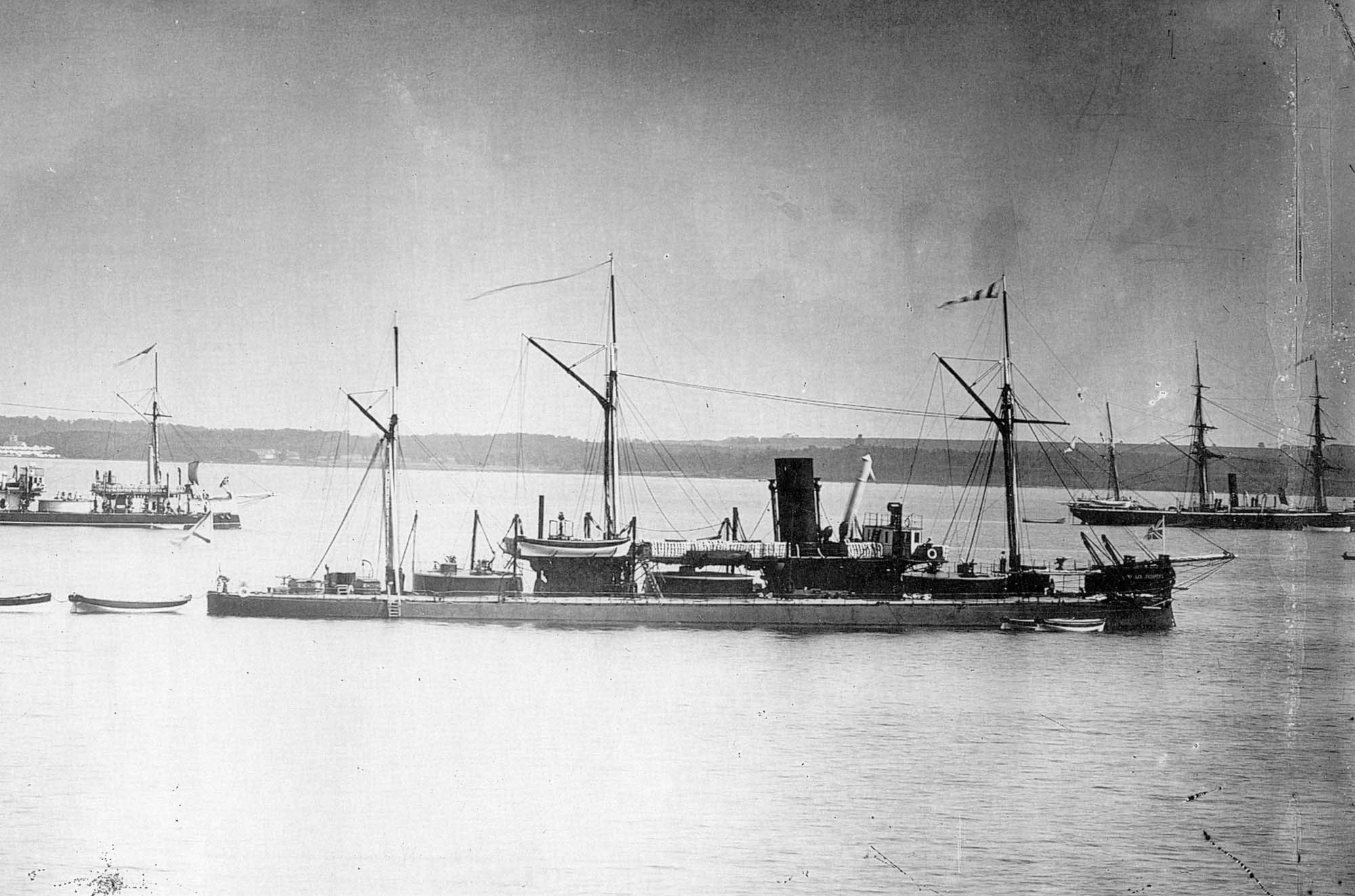 The Imperial Russian triple turret armoured frigate Admiral Lazarev.